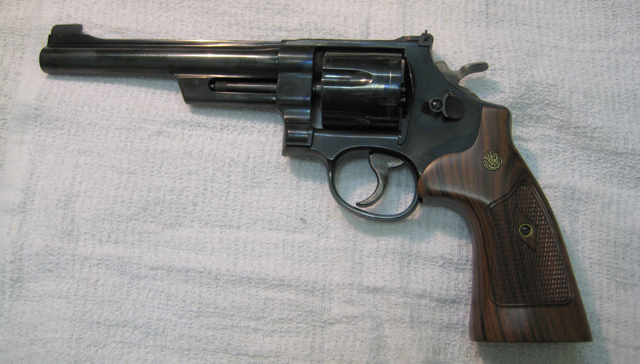 Smith and Wesson Model 27, chambered in .357 Magnum.